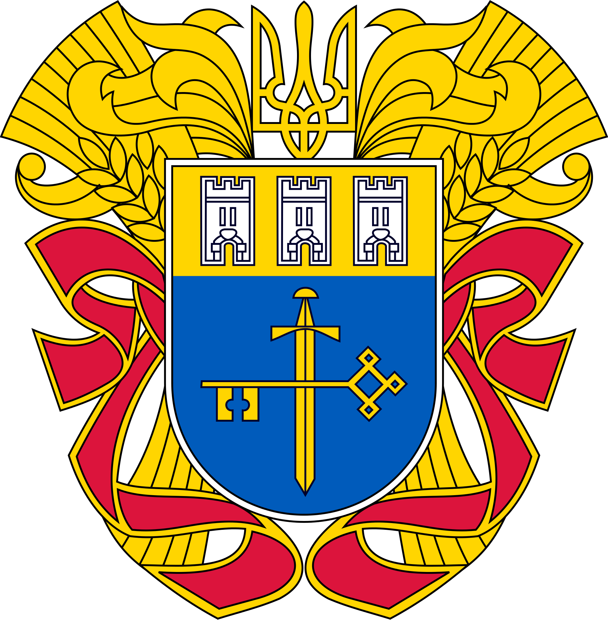 Large coat of arms of Ternopil Oblast, Ukraine